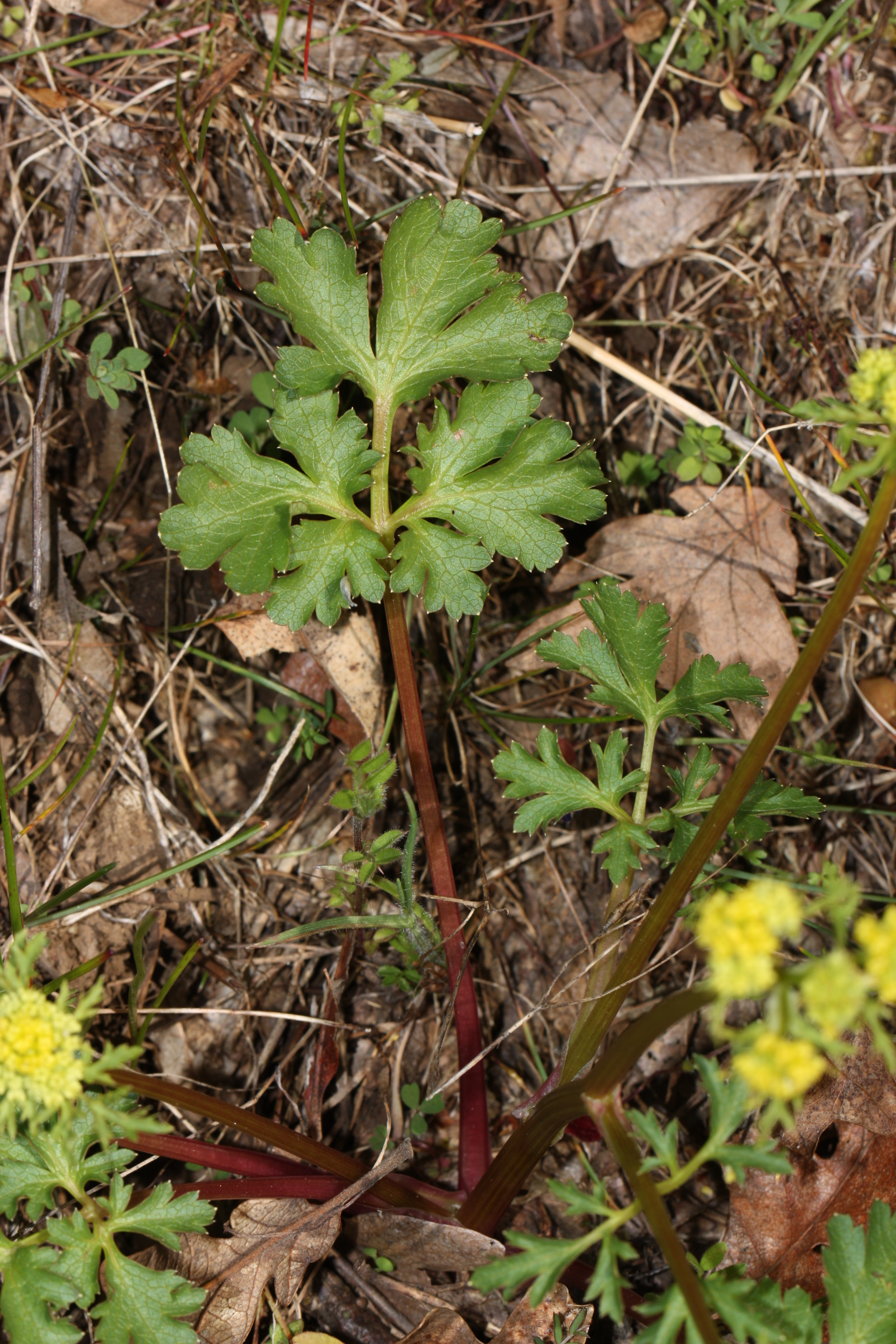 Northern Sanicle, Sierran Black-snakeroot Viewpoint location: Catherine Creek Trail (north of road), Catherine Creek Day Use Area Viewpoint elevation: 134 meter (440 ft) Location source: Garmin GPSmap 60CSx Location Datum: WGS84